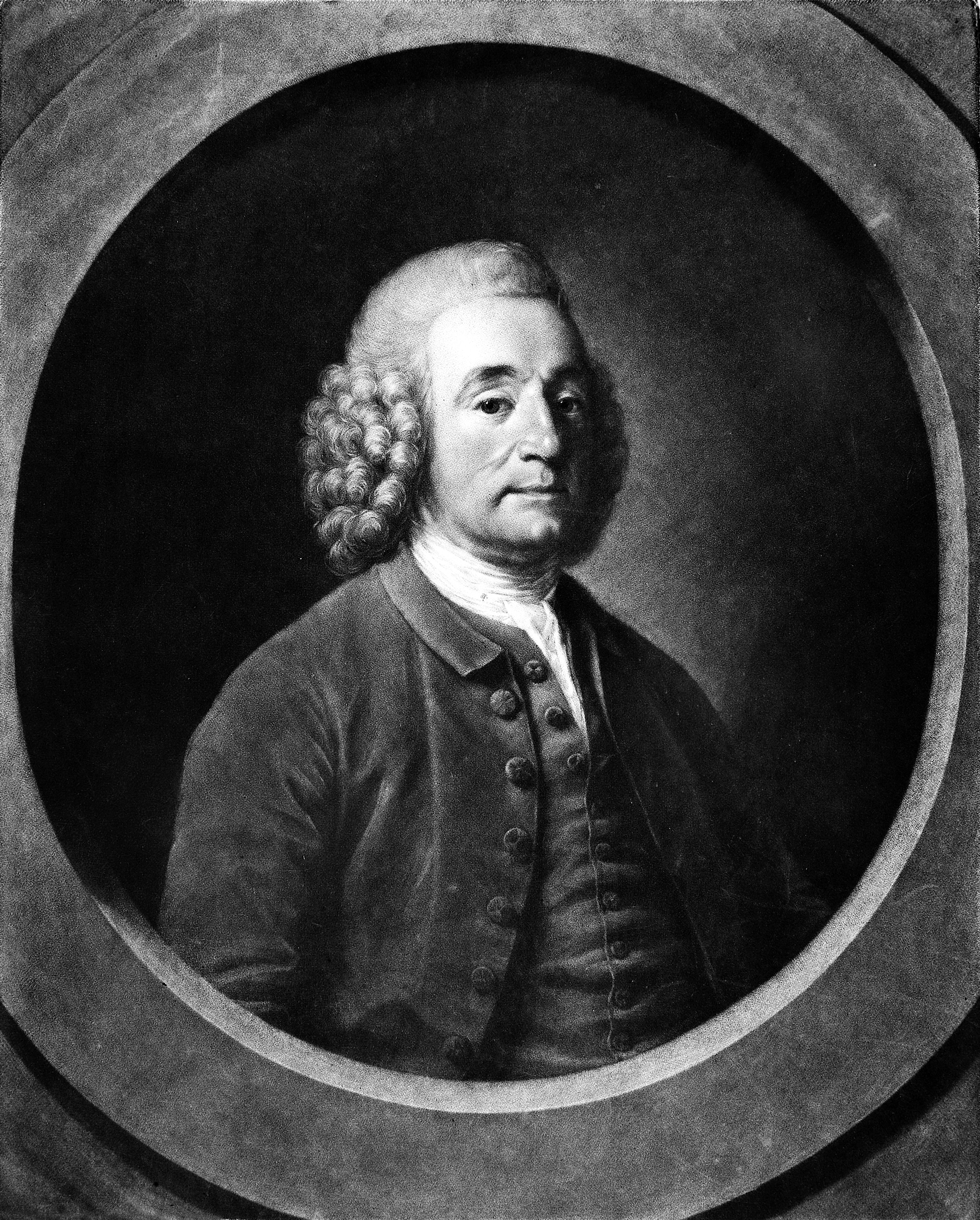 Portrait of Baron Thomas Dimsdale Iconographic Collections Keywords: Thomas A. Burke; Thomas Dimsdale